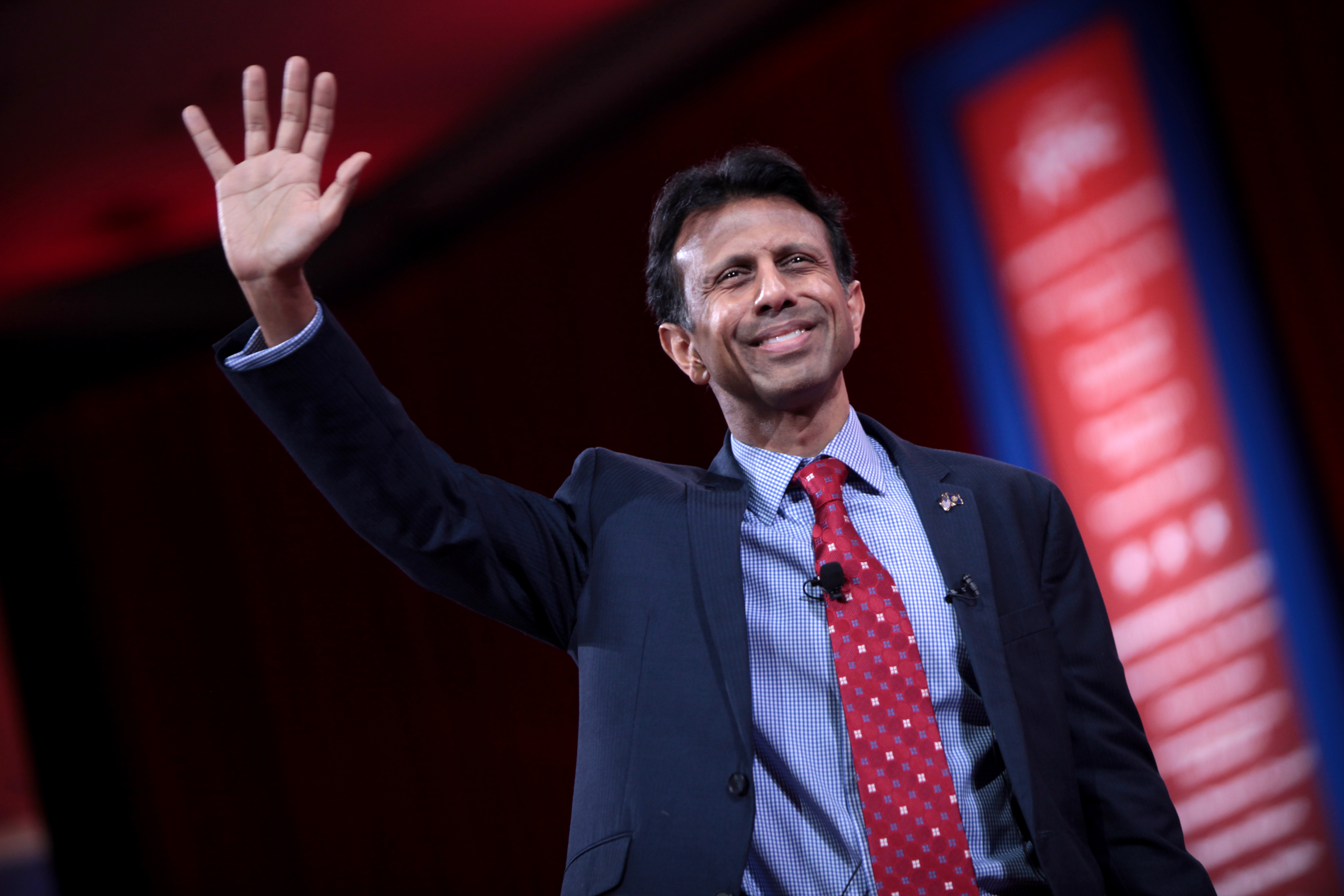 Bobby Jindal speaking at CPAC 2015 in Washington, DC.